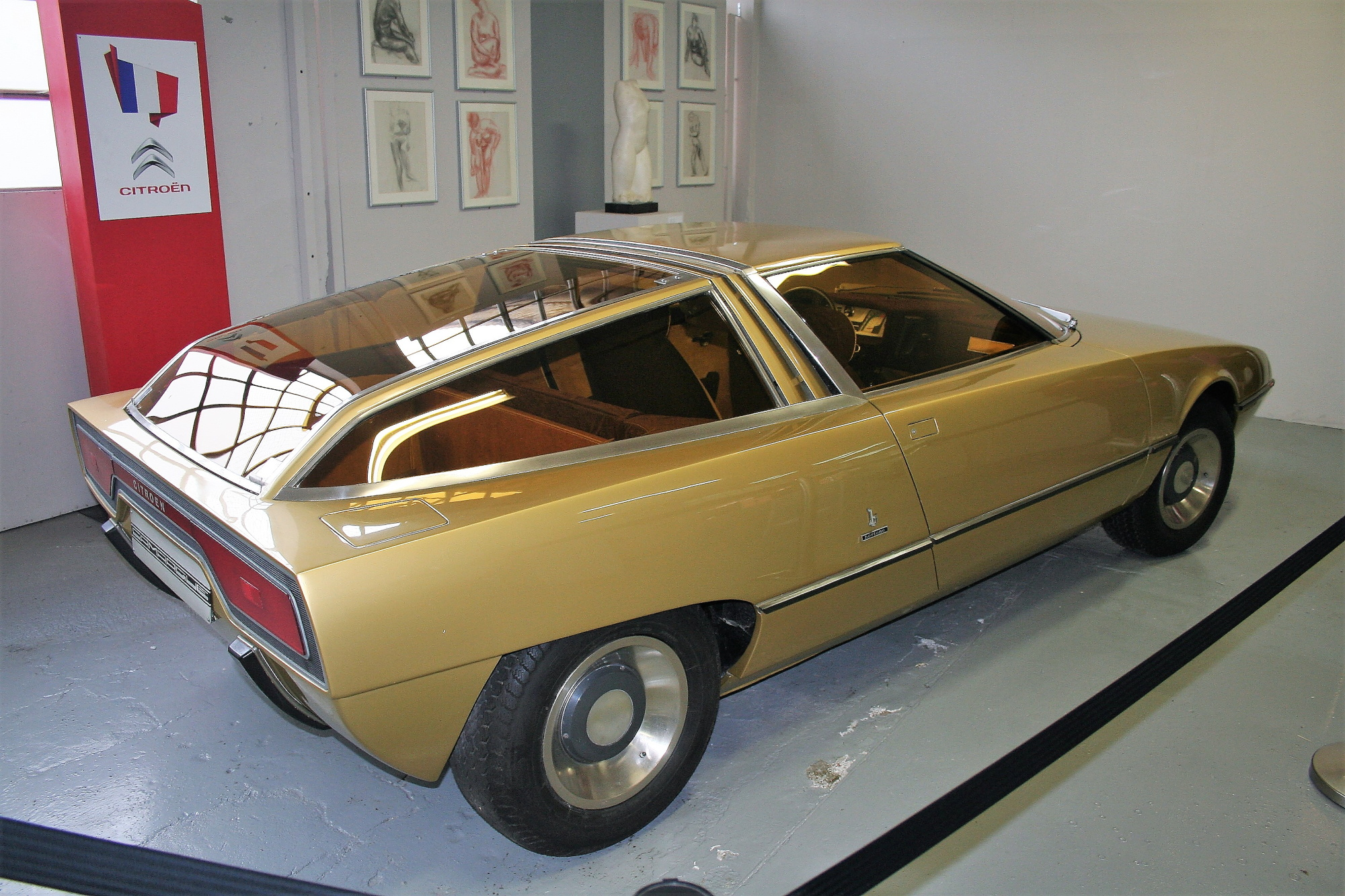 At the Bertone collection of the Automotoclub Storico Italiano (ASI), located in Volandia outside of Milan (by the Malpensa airport and museum areas